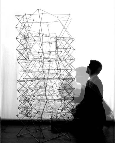 Sistema estructural desplegable zip zip. Rodrigo García